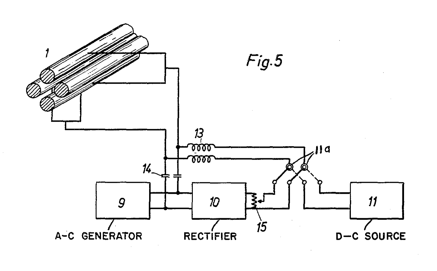 Figure 5 from "Apparatus For Separating Charged Particles Of Different Specific Charges" Patent number: 2939952; Filing date: Dec 21, 1954; Issue date: Jun 1960; Inventor: Paul et al.